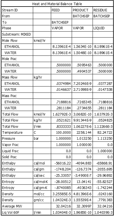 result images produce by the simulation of batchfrac model